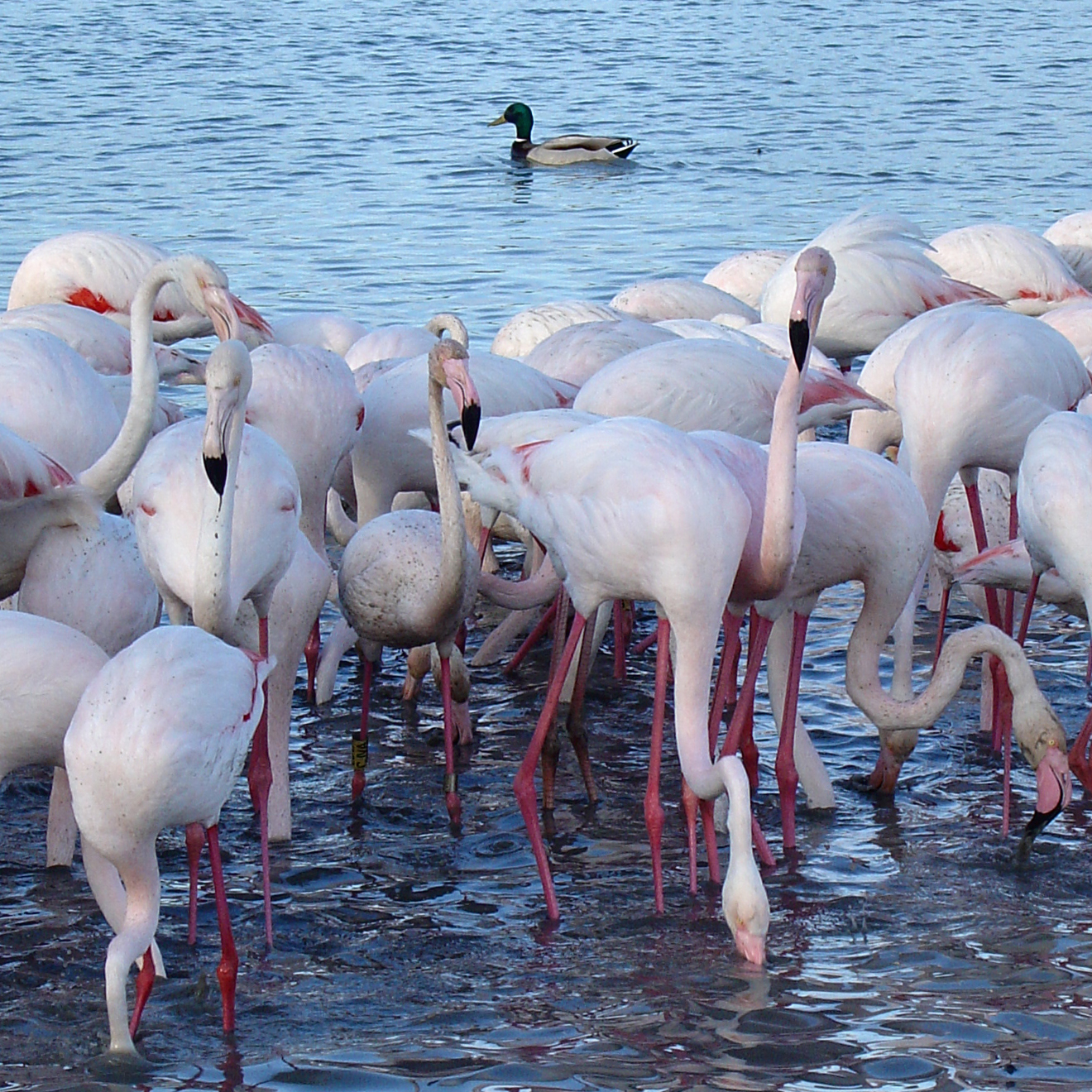 Pink Flamingos with Duck - Camargue, France